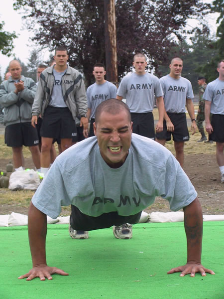 picture of US soldiers taking an APFT from a US military ran website located at